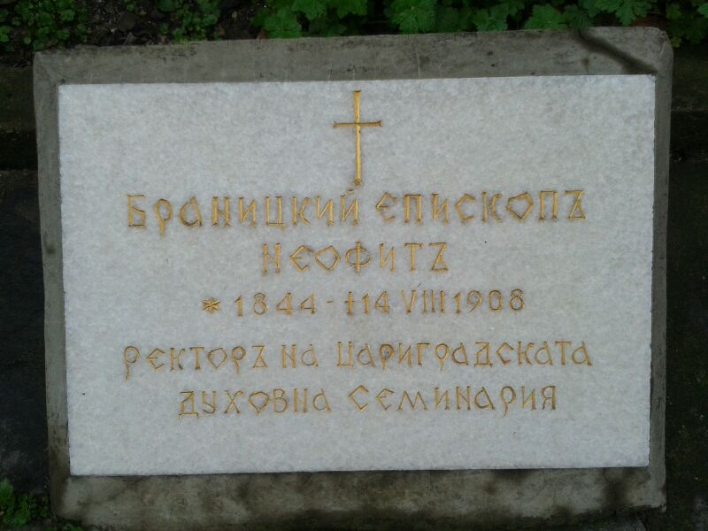 Neophyte of Branitsa Tomb